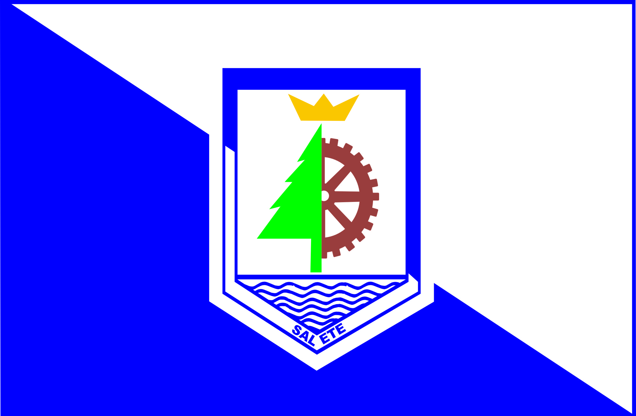 salete